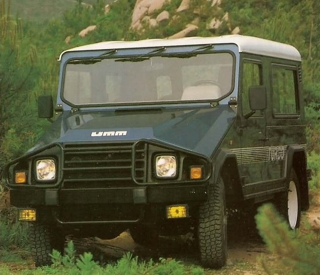 UMM Alter turbo 1990